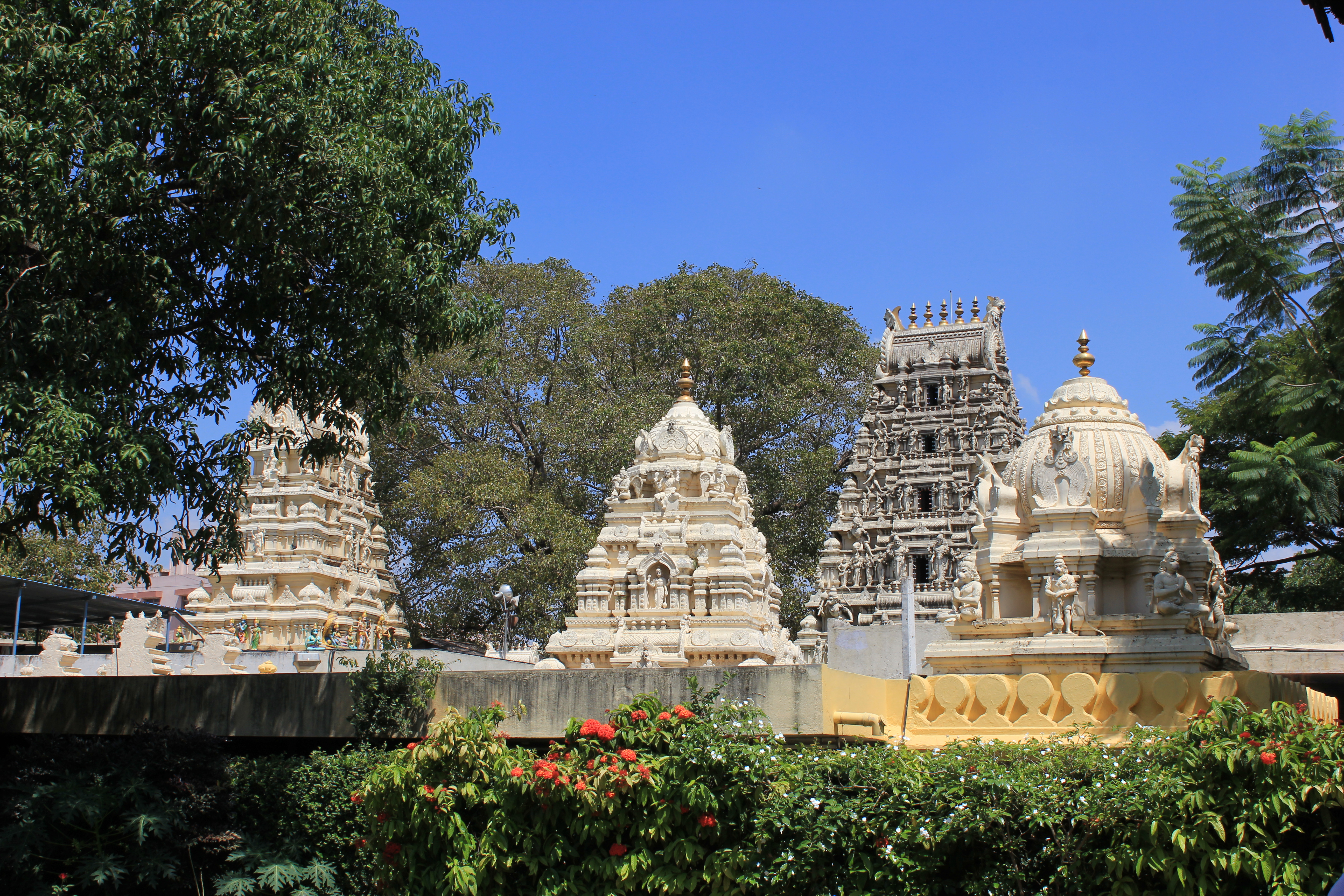 This is a photograph of the Kote Venkataramana Swami temple in Bengaluru (Bangalore), India The temple was constructed during the rule of King Chikka Devaraja Wodeyar of the Kingdom of Mysore during his reign from 1673-1704 A.D. The image shows the mantapa (hall) facing the inner sanctum